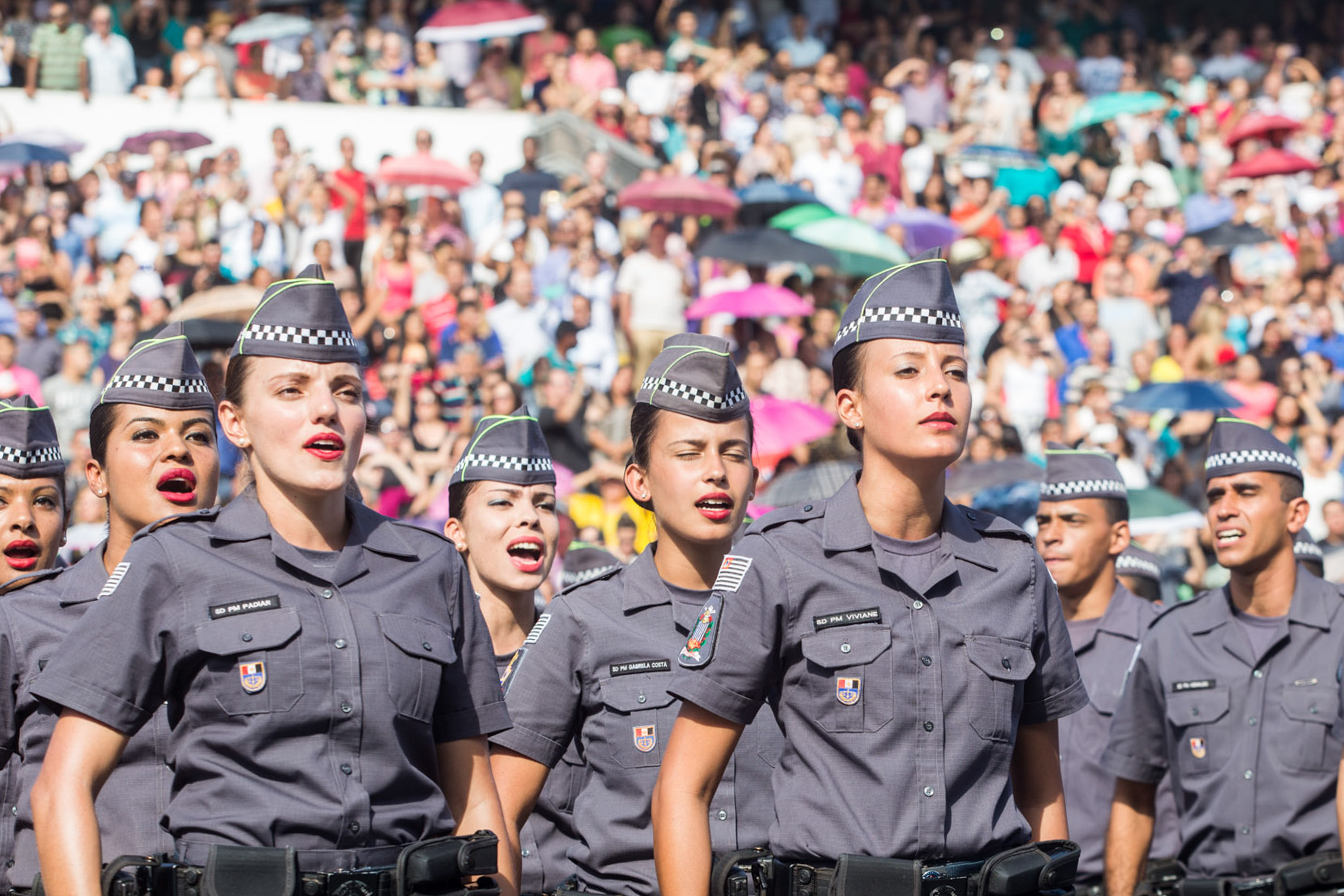 Formatura de 2614 Soldados da PM no Sambódromo do Anhembi. Data: 27/05/2015. Local: São Paulo/SP.Foto: Du Amorim/A2 FOTOGRAFIA